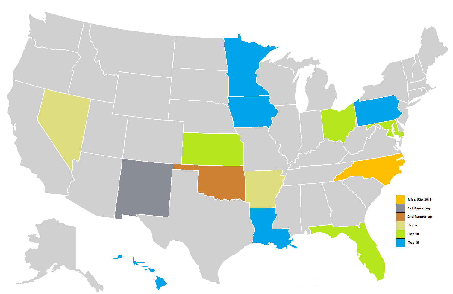 Results by each U.S state and the District of Columbia on the Miss USA 2019 competition.